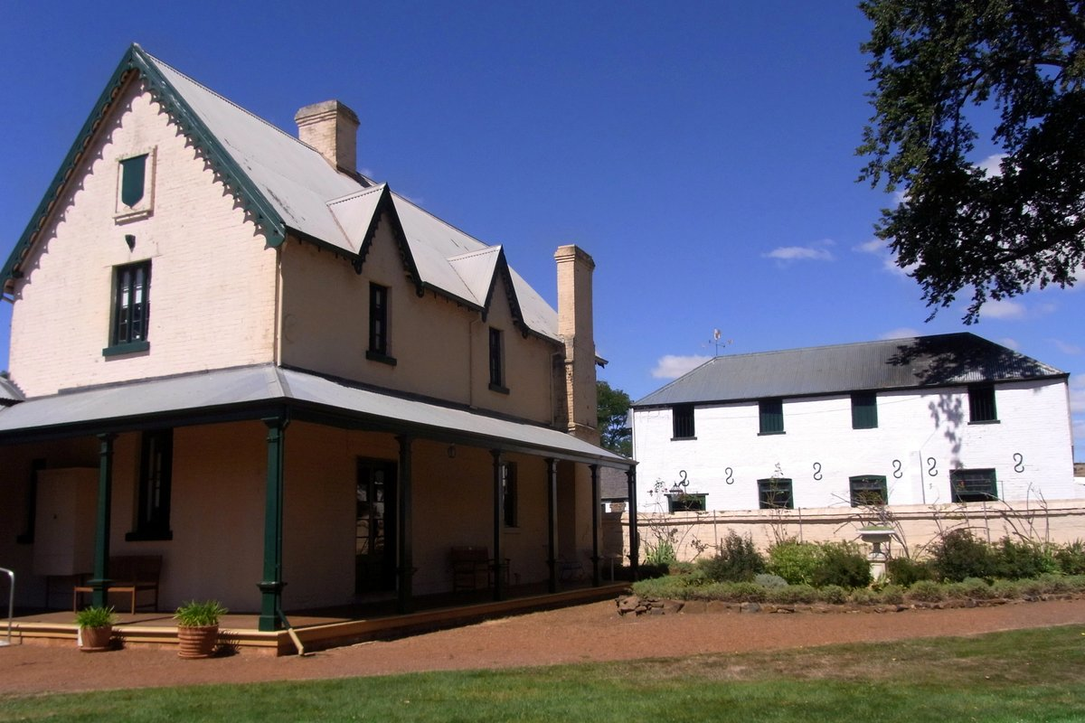 Entally House, Hadspen, Tasmania, Australia